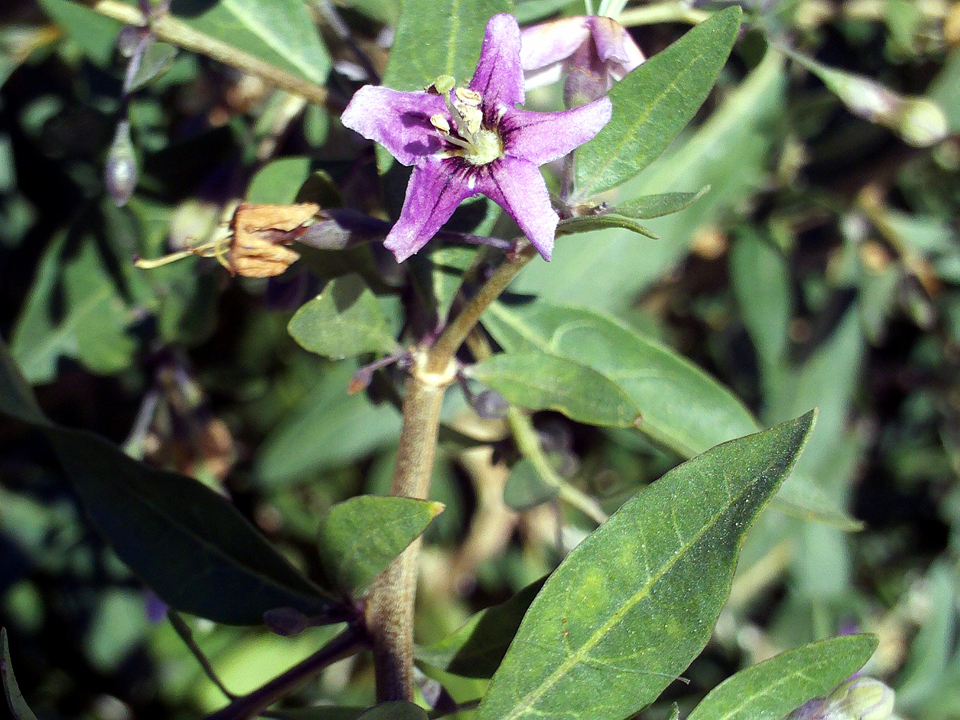 Lycium barbarum Flowers Close up Campo de Calatrava, Spain